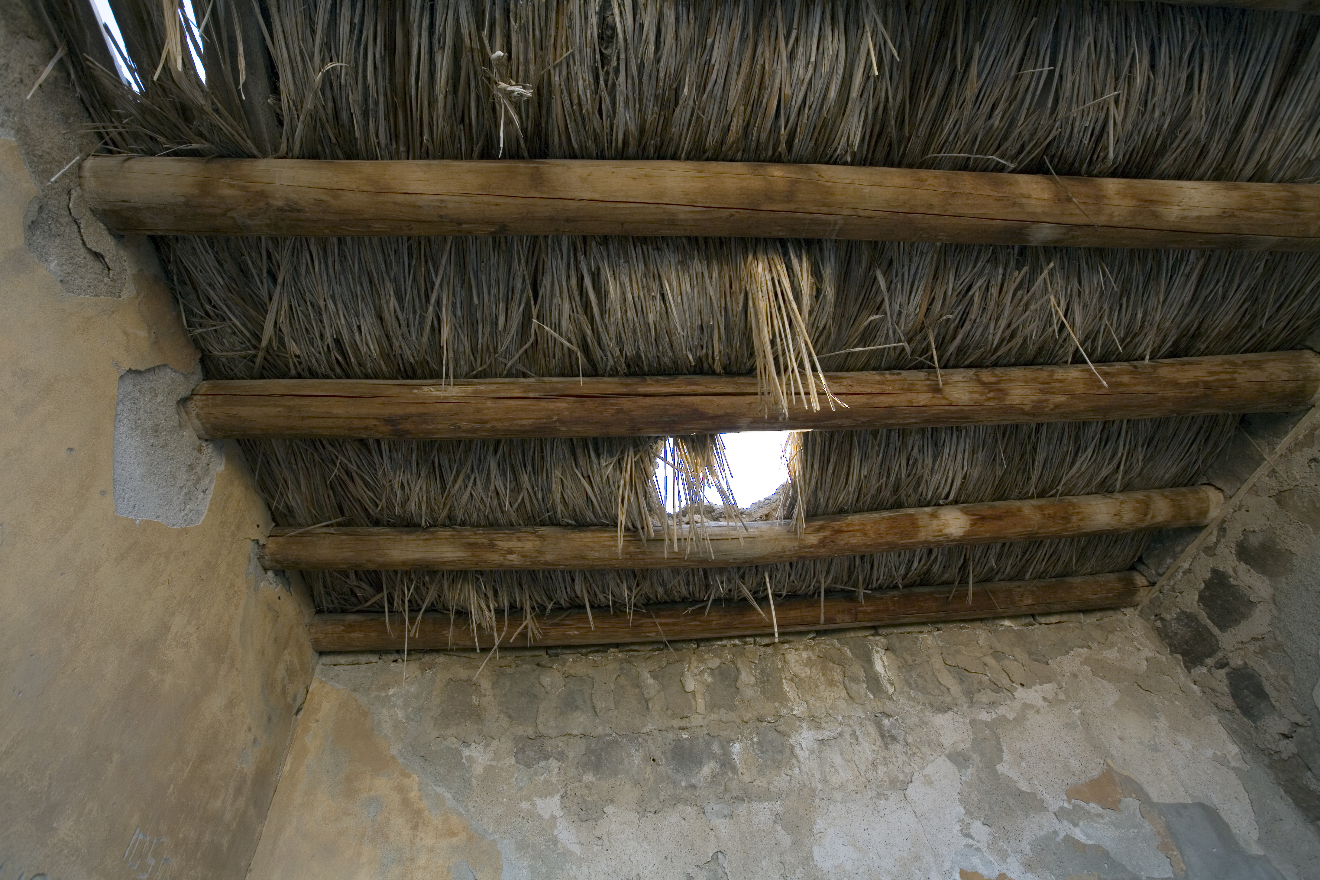 Erebuni, Roof (contemporary reconstruction)